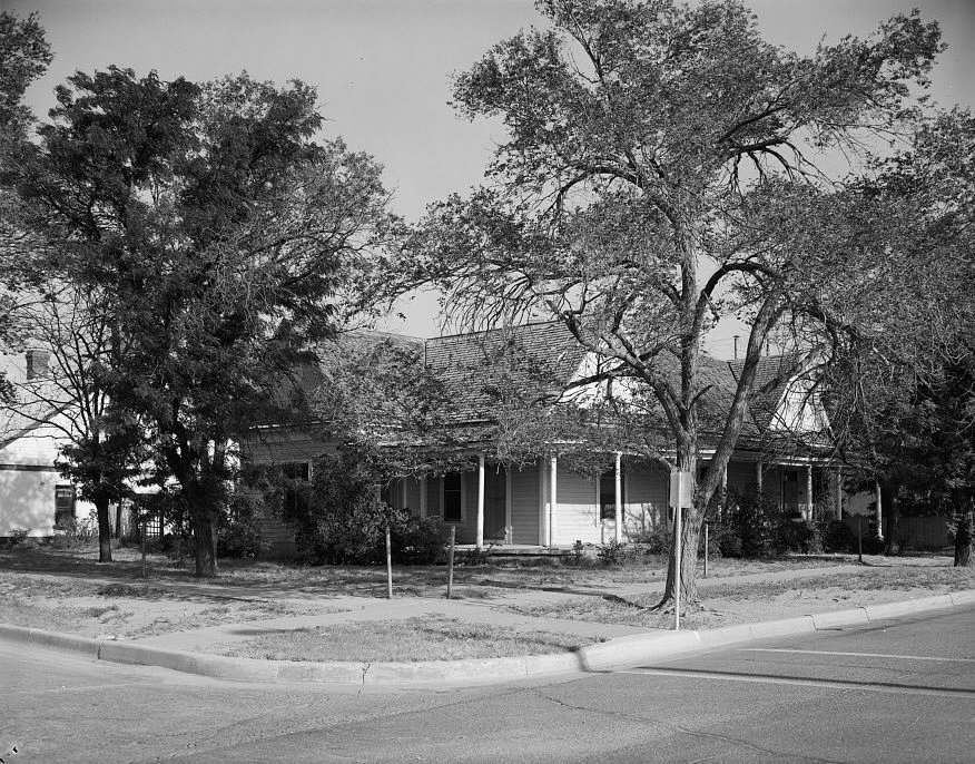 The Baca-Goodman House, located in Tucumcari, New Mexico. The house has since been demolished.